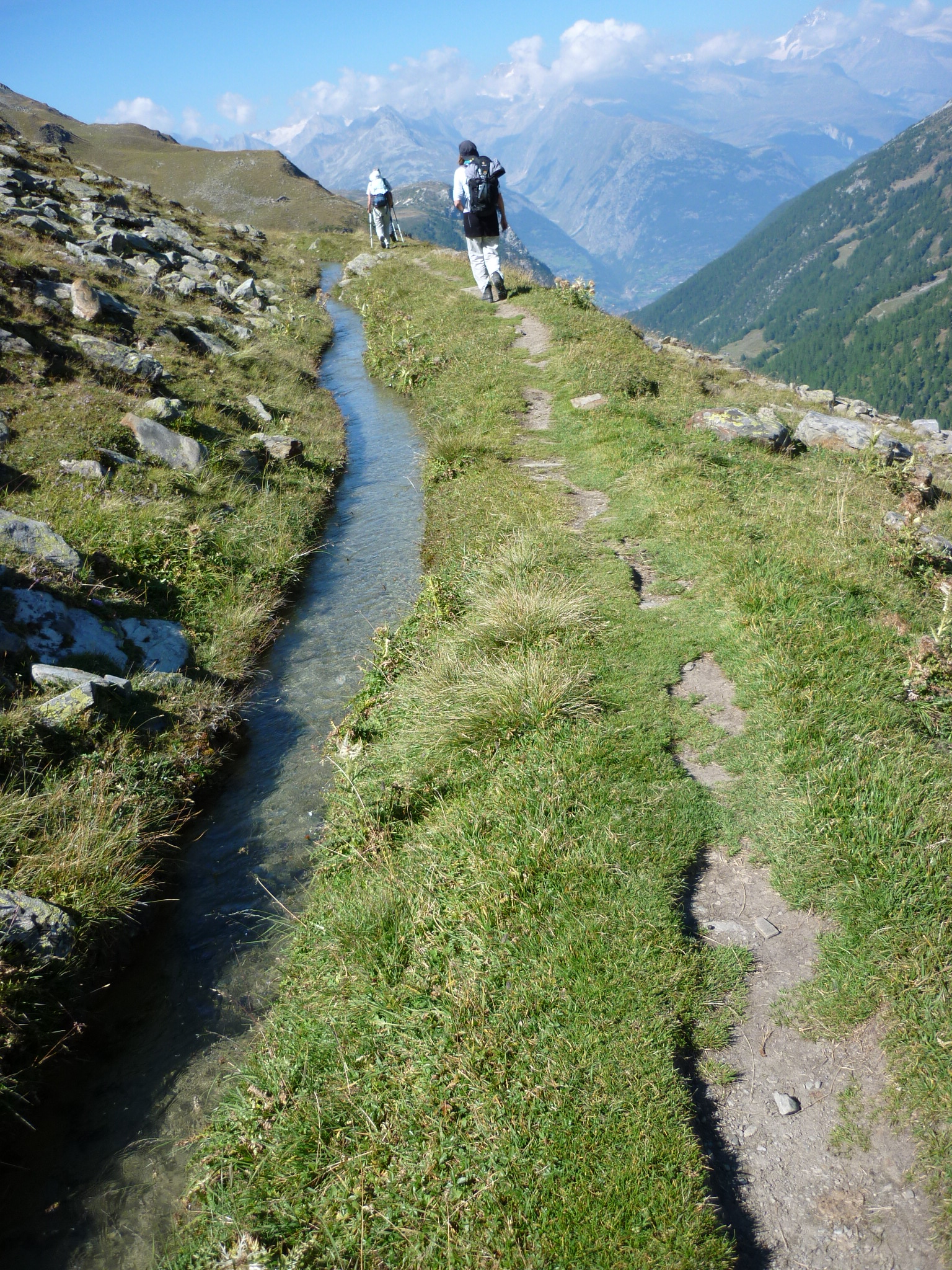 Suone Heido, Nanztal, Kanton Wallis, Schweiz